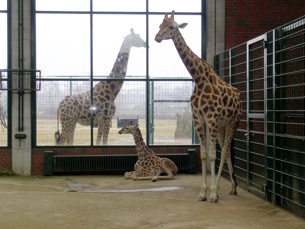 Rothschild giraffes in the Tierpark Berlin.